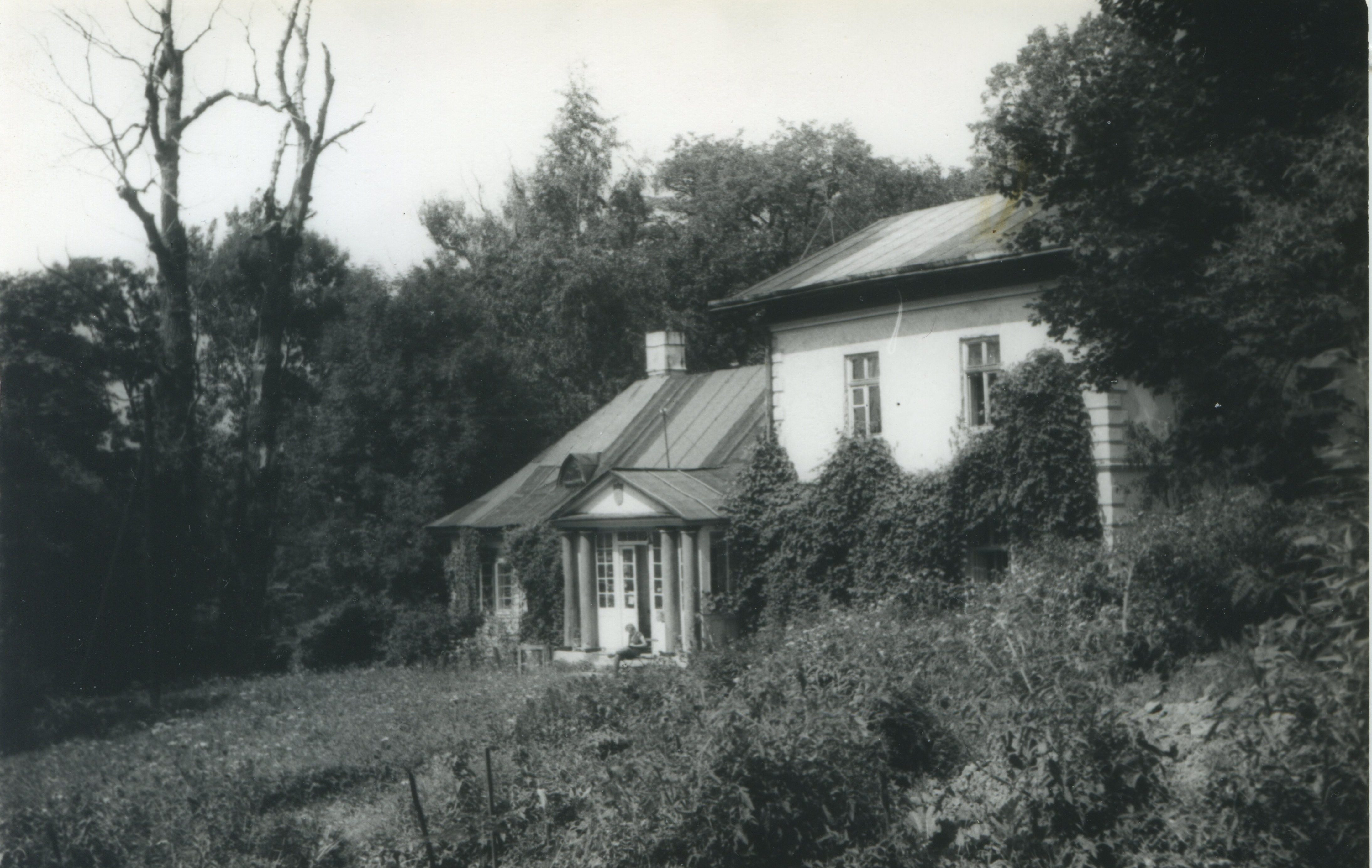 Ladzin manor house, Resztówka, in the Subcarpathian Voivodeship, southeastern Poland.